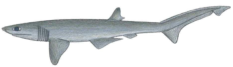 Heptranchias perl.